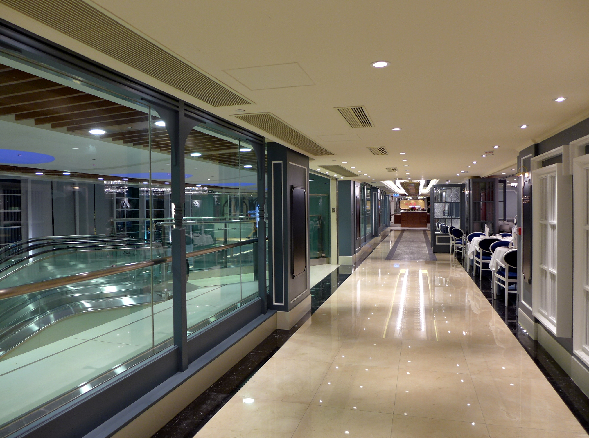 New Town Plaza L8 Maxim Chinese Restaurant Access